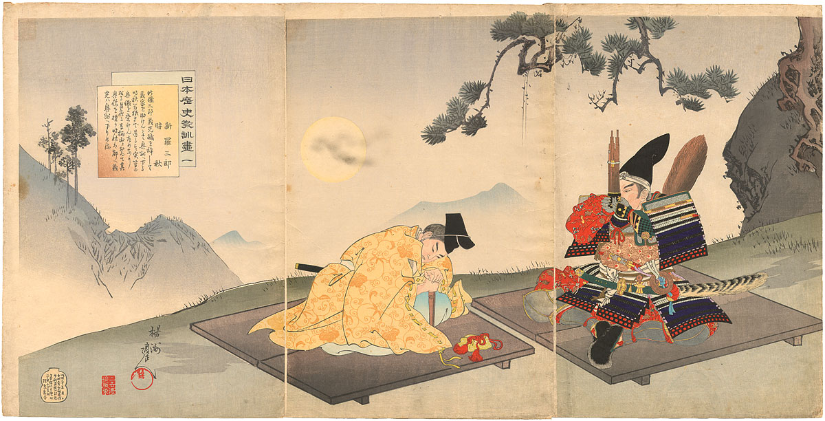 A triptych from the series Nihon Rekishi Kyokun Ga – Lessons from Japan's History. An image of Shiragi Saburo and Tokiaki